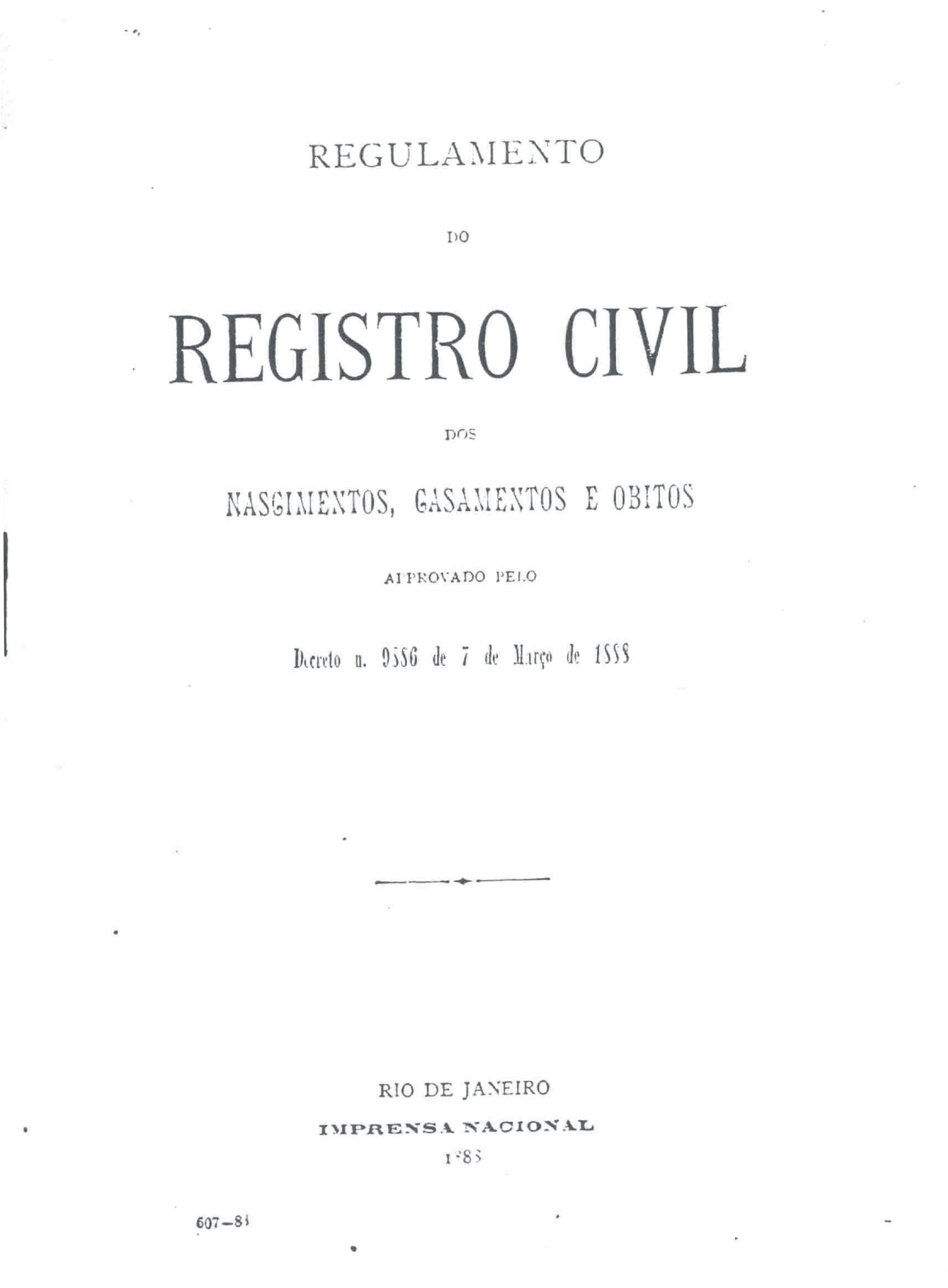 Inside cover of the "Regulamento do Registro Civil", 1888.